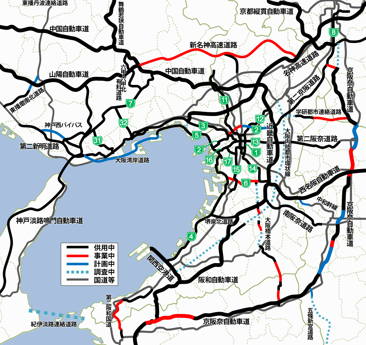 Main road map in the Kinki region (highways)